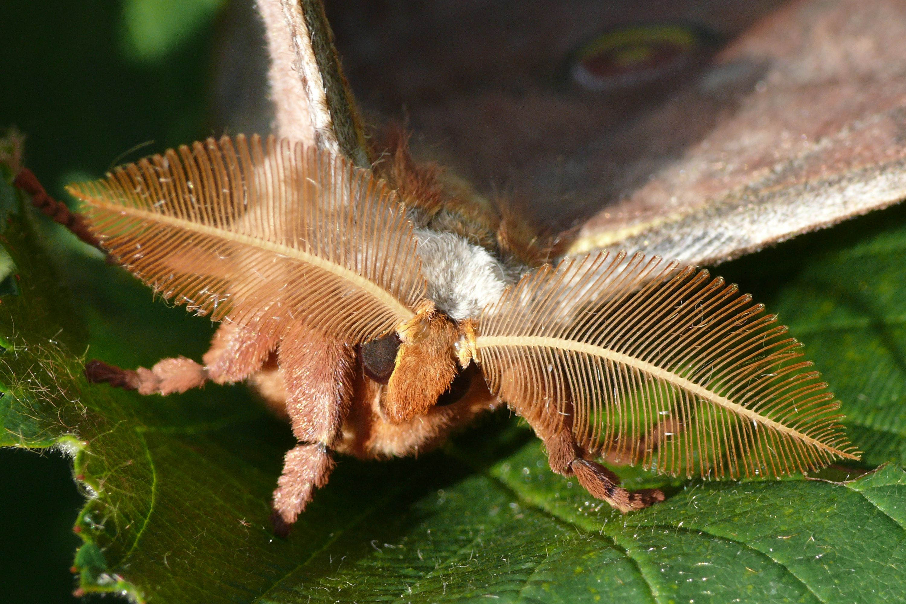 Antennae of a male Japanese Silk Moth or Japanese Oak Silkmoth (Antheraea yamamai)